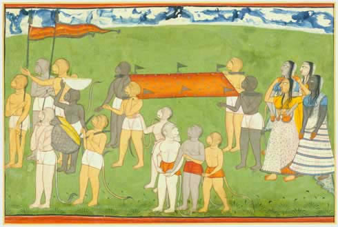 The funeral procession for Bali, the 'vanara' king. The palanquin bearing King Bali’s corpse to its cremation is carried by four 'vanaras', depicted as monkeys in a procession led by two standard-bearers and a monkey who sprinkles sacred water from a bowl carried on the head of another. In the foreground, four more monkeys walk beside the bier, preceded by a drummer and a drum-bearer. The cortege ends with the grief-stricken Queen Tara and three mourners represented as human woman. The puffy clouds and plain landscape typical of Nurpur pictures are evident. The picture has a red border with black, white and blue-grey rules.